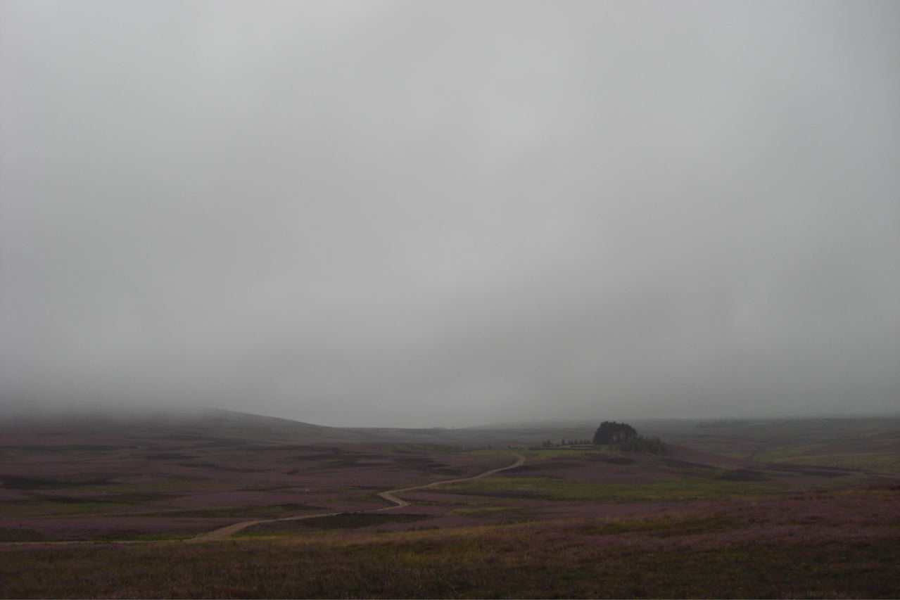 View of Kippetlaw, Marchmont Estate